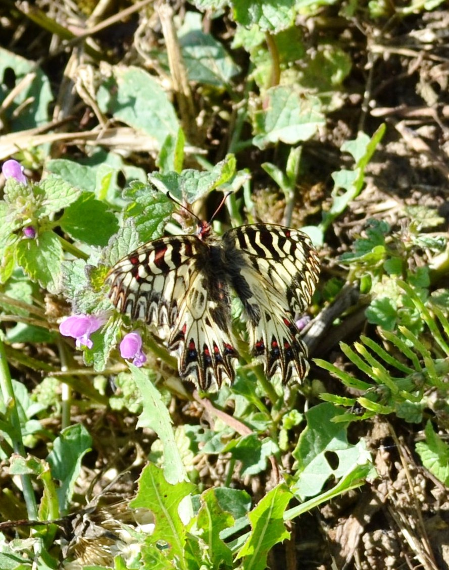 Southern Festoon (Zerynthia polyxena) in Prša (Slovakia)